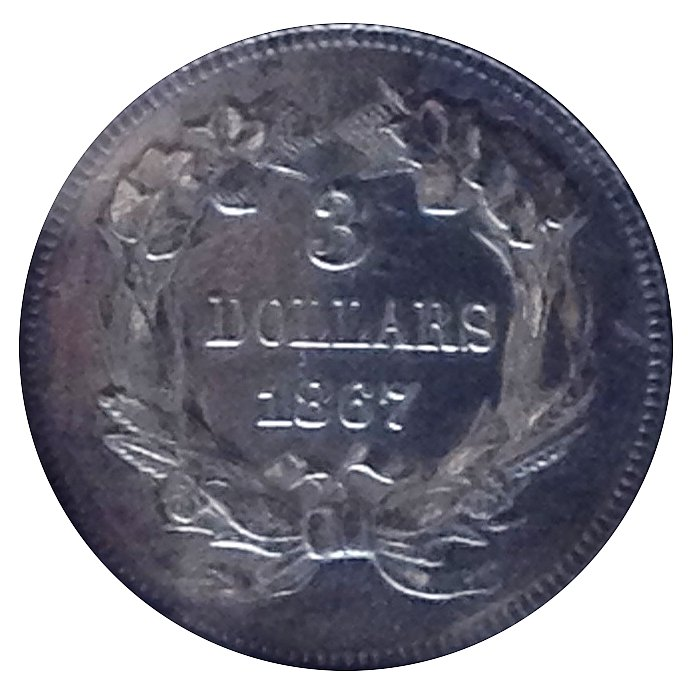 reverse of off-metal strike in silver of the 1867 three dollar coin